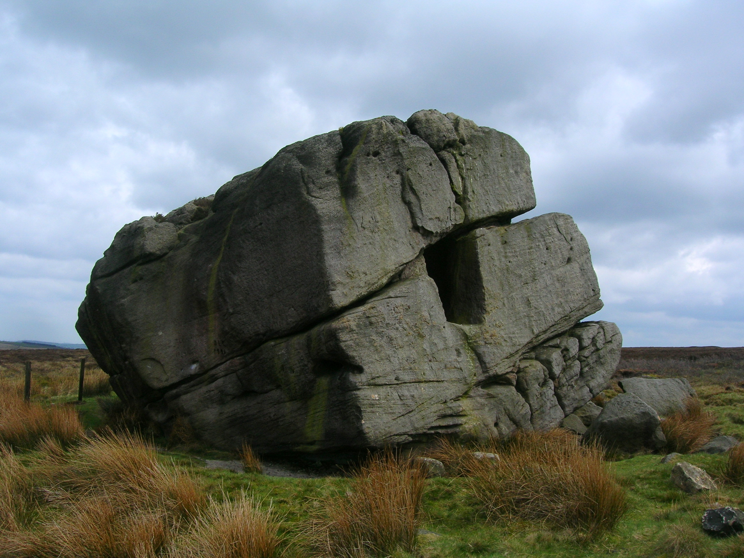 The Hitching Stone, near to Cowling, North Yorkshire, Great Britain.